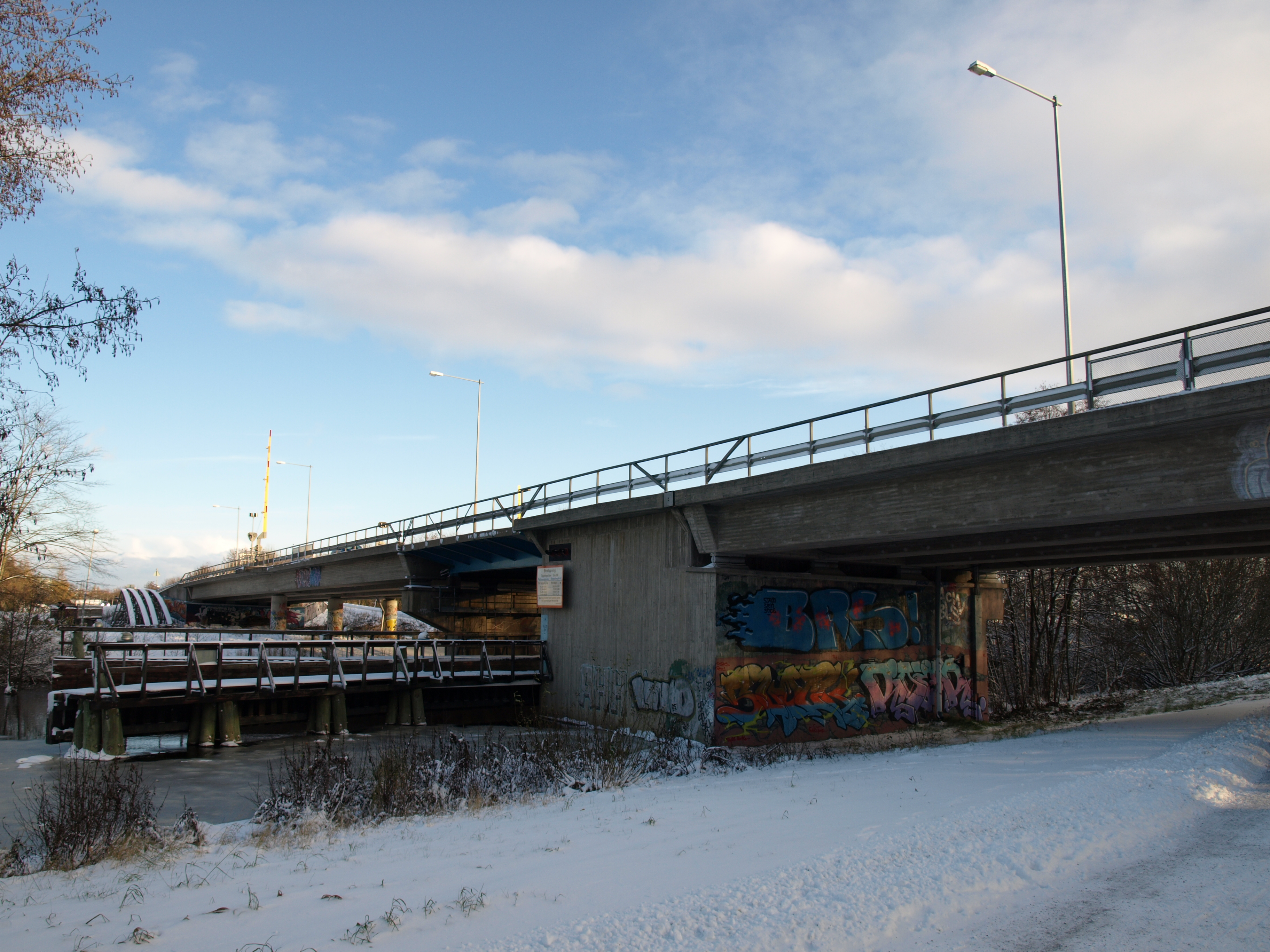 The "Kungsängsbron" bridge over the river Fyrisån, Uppsala, Sweden.